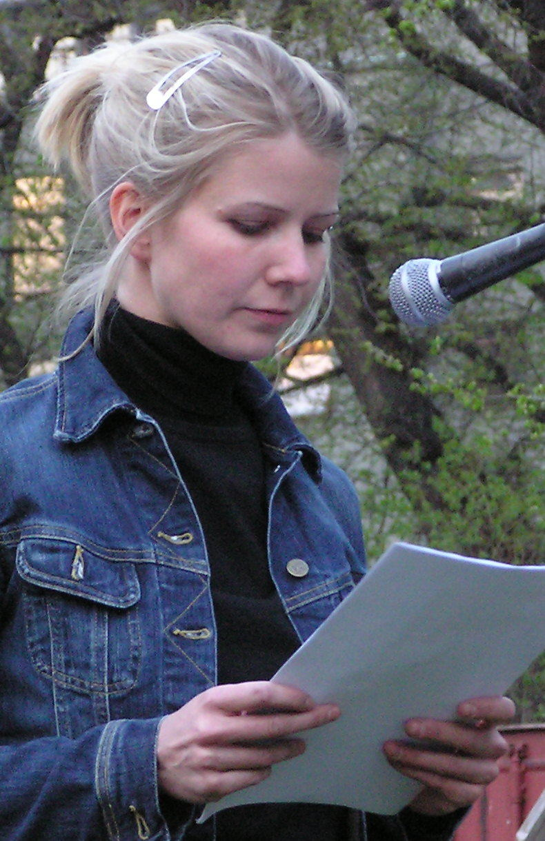 Therese Tungen at Spasibar, Oslo, May 2006